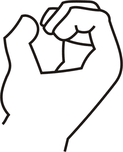 Hand expressing the zero